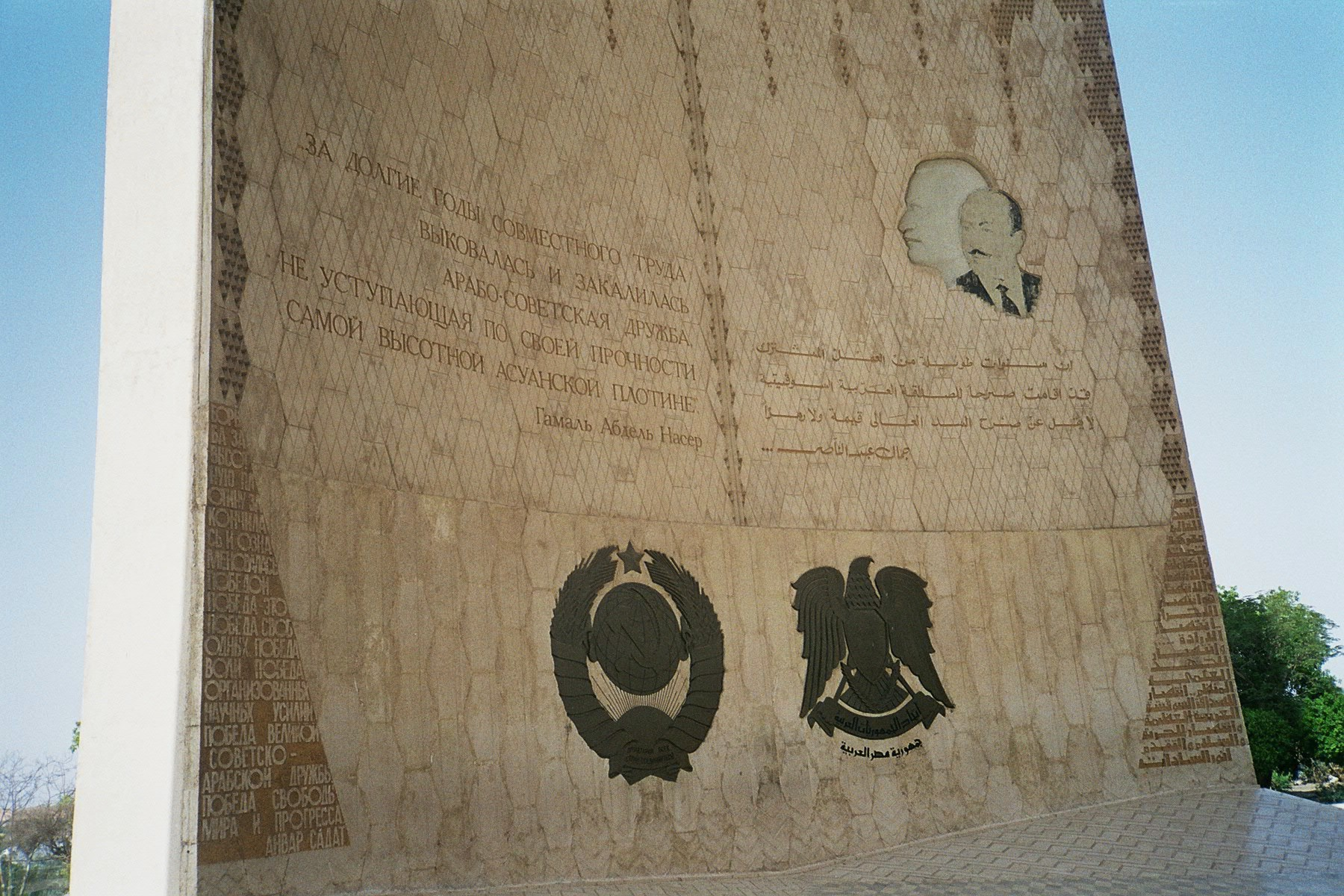 Commemorating Wall, High Dam Monument, Aswan, Egypt